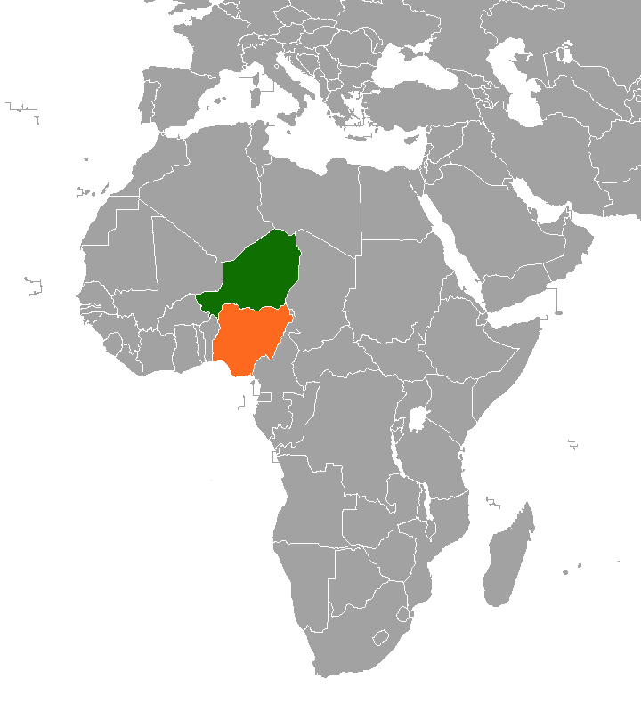 location of nigeria and niger